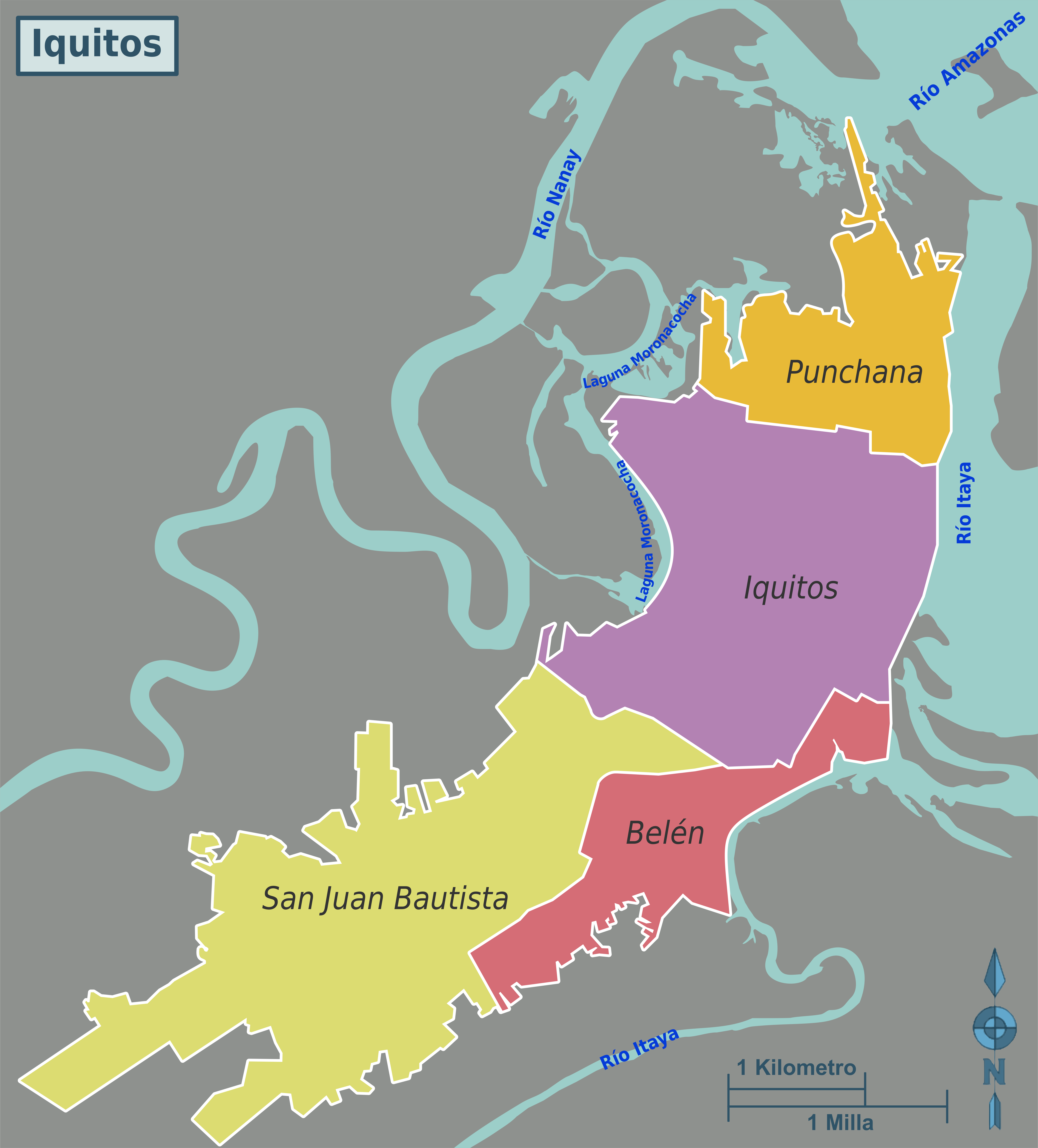 Map of Iquitos, Perú, featuring its four districts (2015) and rivers surrounding it.